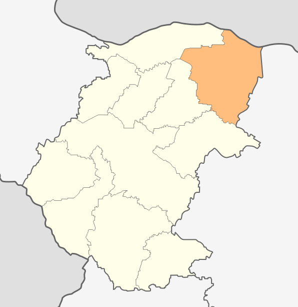 Map of Valchedram municipality, Montana Province